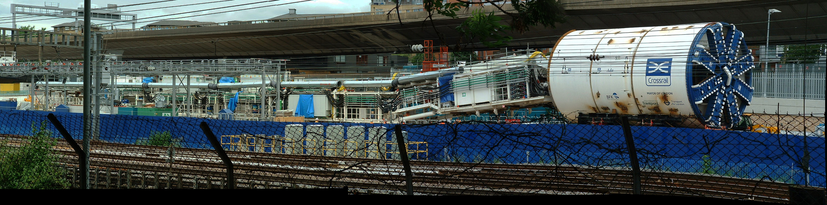 Tunnel boring machine Ada, about to be deployed at the Royal Oak Crossrail portal, on a low loader west of the foot bridge to the west of the portal. Before it can be moved any further the bridge must be raised 10ft on hydraulic jacks. This image was assembled from several pictures to create a panoramic view using the Hugin panoramic stitcher program.